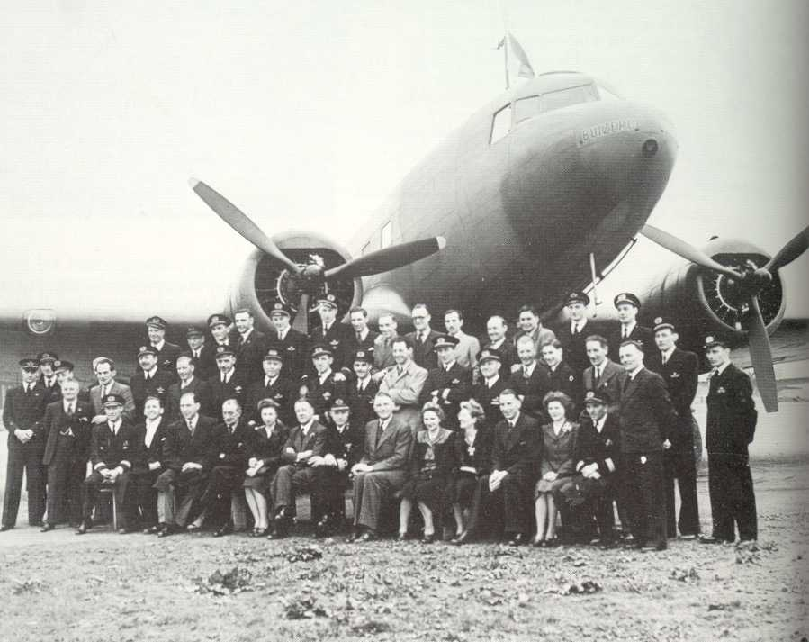 KLM PH-ARB Buizerd and (mostly) Dutch KLM crewmembers during WW2 on lease to BOAC after German invasion of The Netherlands. This photo was taken at the (former) Whitchurch Airfield to commemorate the 500th flight on the Lisbon-Bristol line.